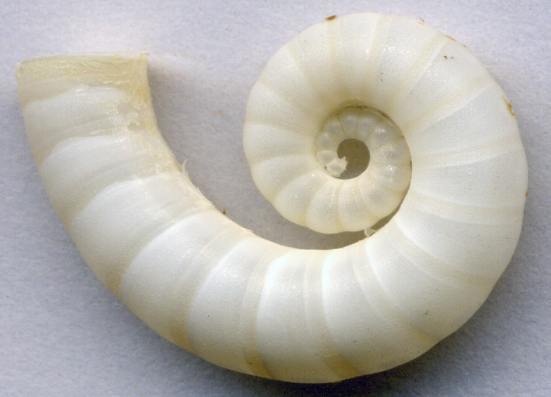 Spirula spirula (Linnaeus, 1758) - lateral view of a ram’s horn squid shell, 1.74 cm across. This is a mineralized, internal shell of a modern squid, somewhat reminiscent of Paleozoic and Mesozoic coiled cephalopod shells. Classification: Animalia, Mollusca, Cephalopoda, Coleoidea, Spirulidae